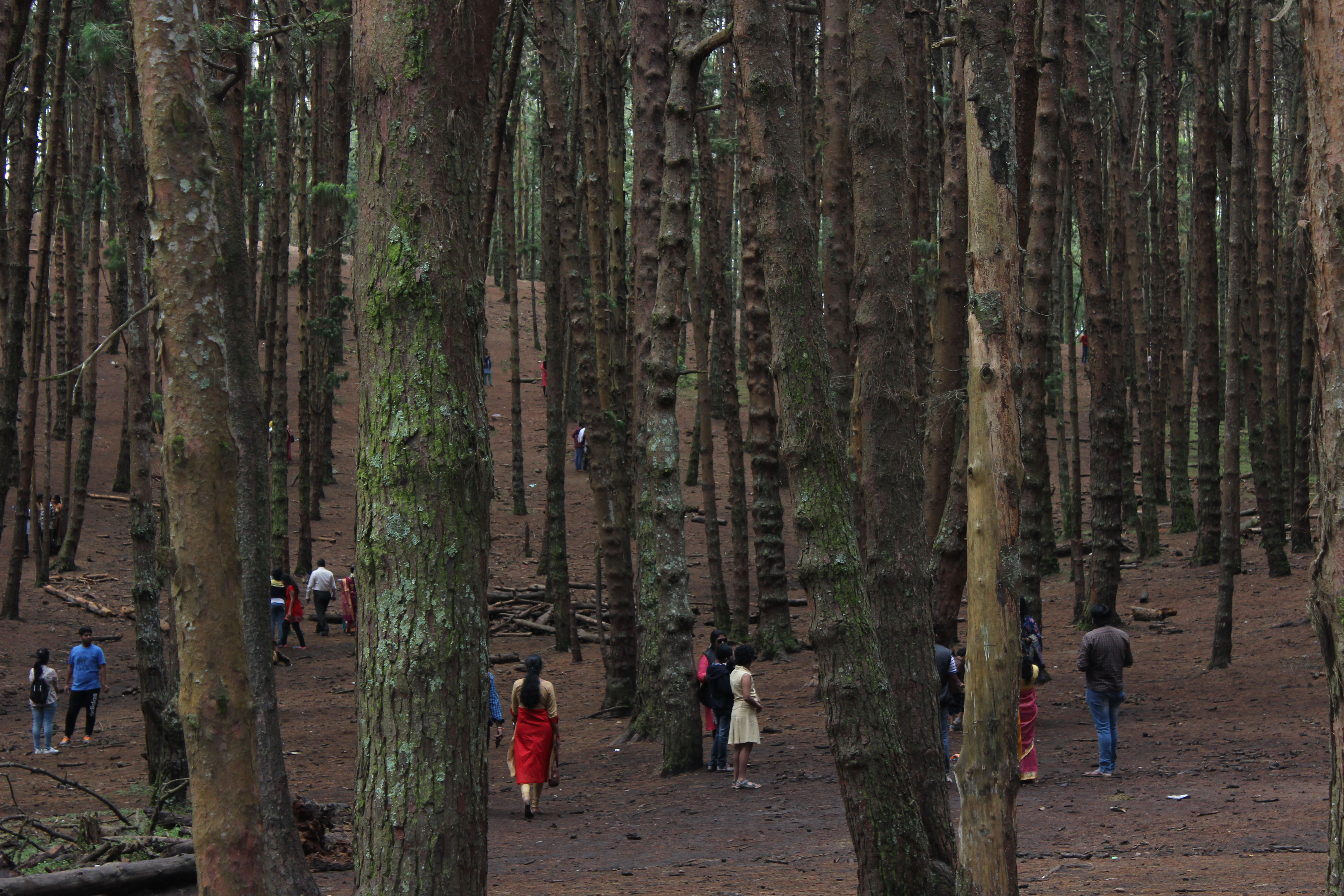 Pine Forest in Kodaikanal